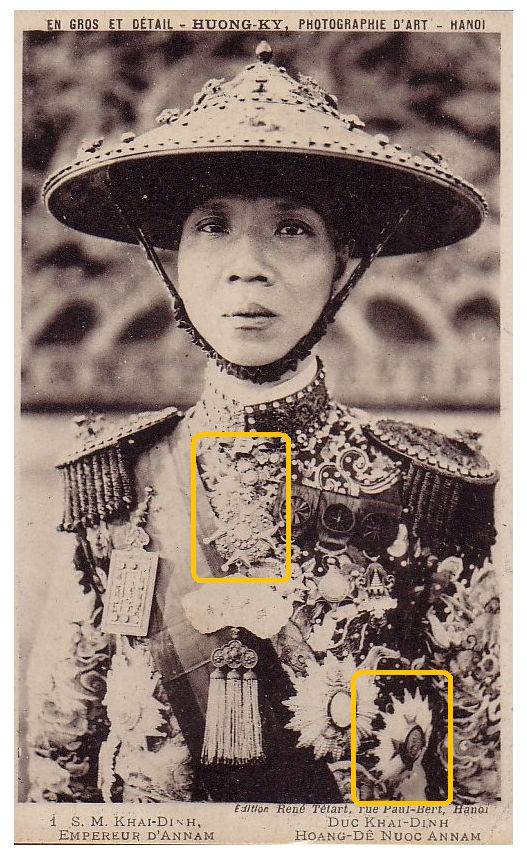 Emperor Khai Dinh with the Order ofMerit highlighted in yellow